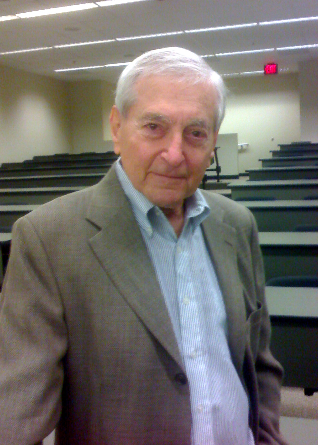 This picture of Professor Wolfgang Rindler was taken at Baylor University by V H Satheeshkumar.